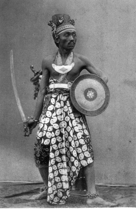 Bodyguard of Hamengkoe Boewono VI, sultan of Yogyakarta